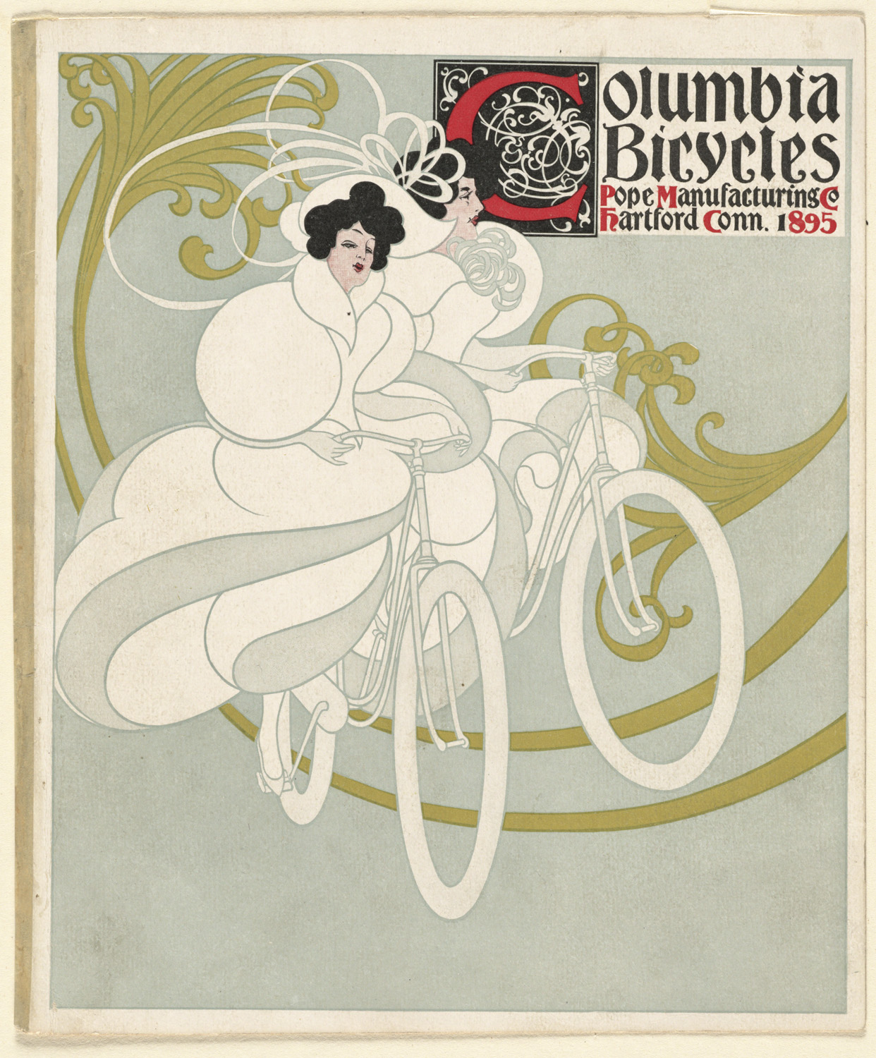 File name: 12_04_000004 Title: Columbia bicycles. Pope Manufacturing Co Hartford, Conn. 1895 Creator/Contributor: Bradley, Will, 1868-1962 (artist) Date issued: 1895 (inferred) Physical description: 1 print (poster) : lithograph, color ; 22 x 19 cm. Summary: Two women ride bicycles. Genre: Posters; Lithographs Subject: Women; Bicycles & tricycles Notes: Title from item. Collection: American Art Posters Location: Boston Public Library, Print Department Rights: No known restrictions.